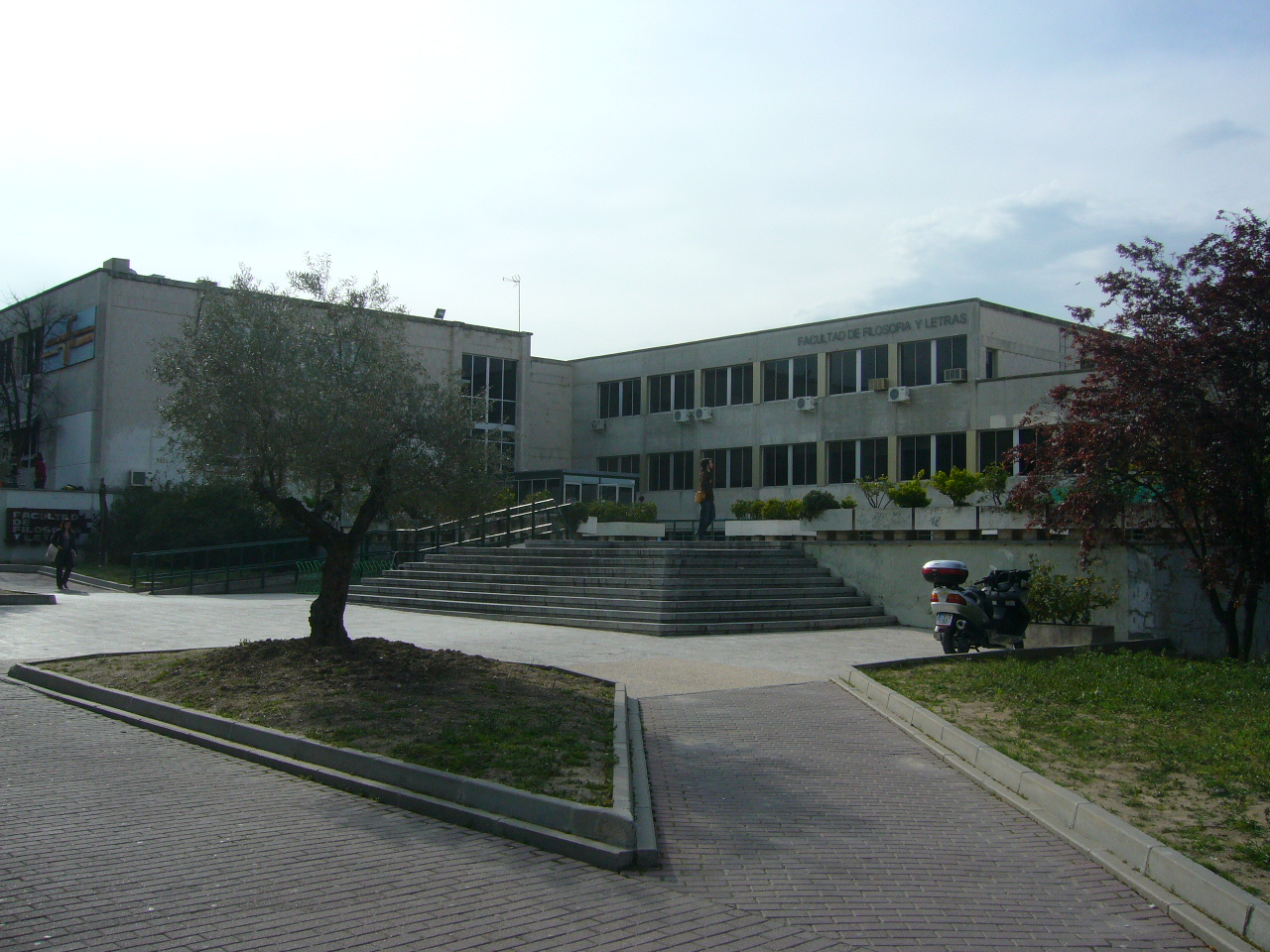 Philosophy and Letters building in Universidad Autónoma de Madrid (Autonomous University of Madrid) in Cantoblanco.